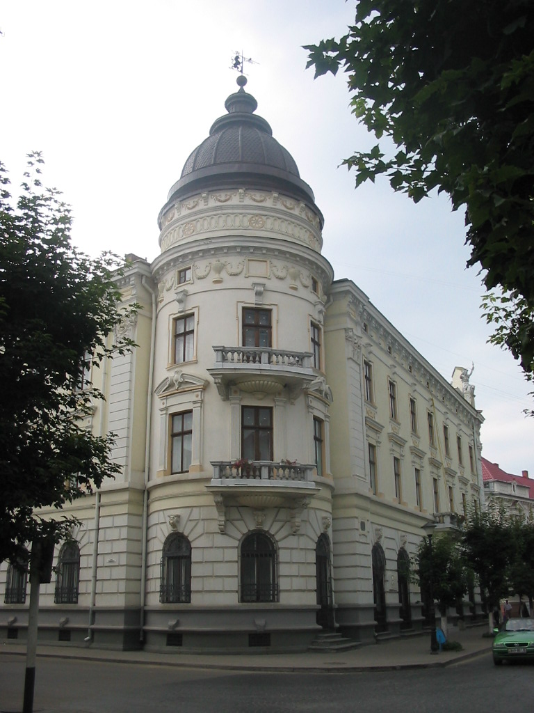 Historical house in Kolomyia (Коломия), city in Ivano-Frankivsk oblast, western Ukraine.